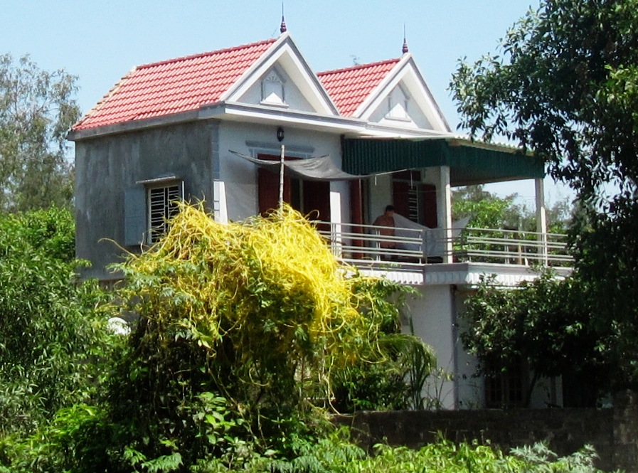 Cuscuta in Thạch Hải commune, Hà Tĩnh province, Vietnam